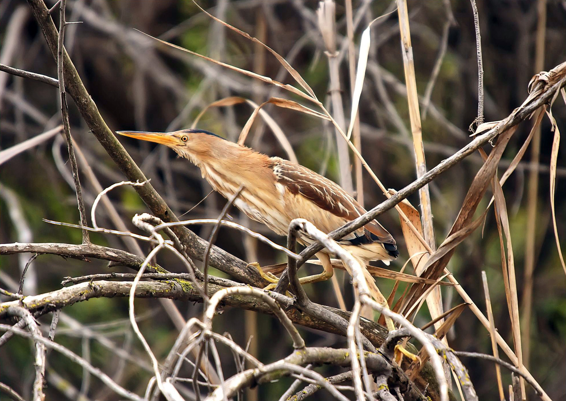 An adult female Little Bittern in Barcelona, Spain.